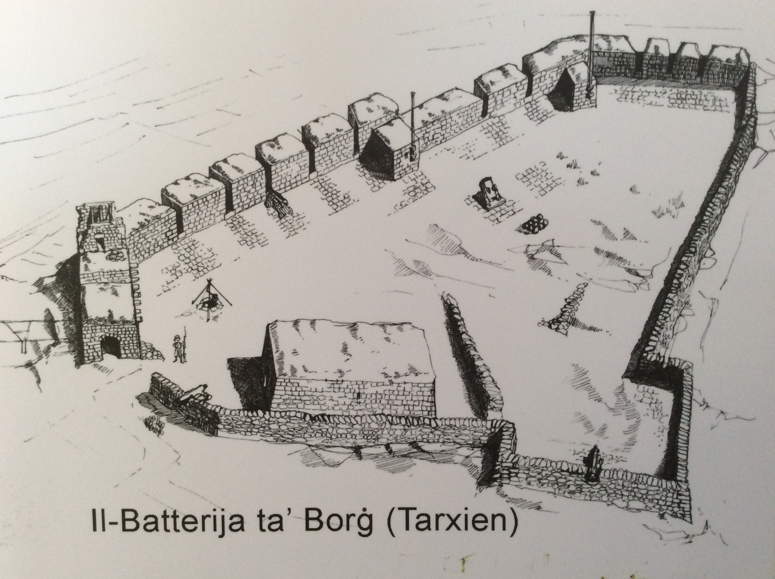 Valletta